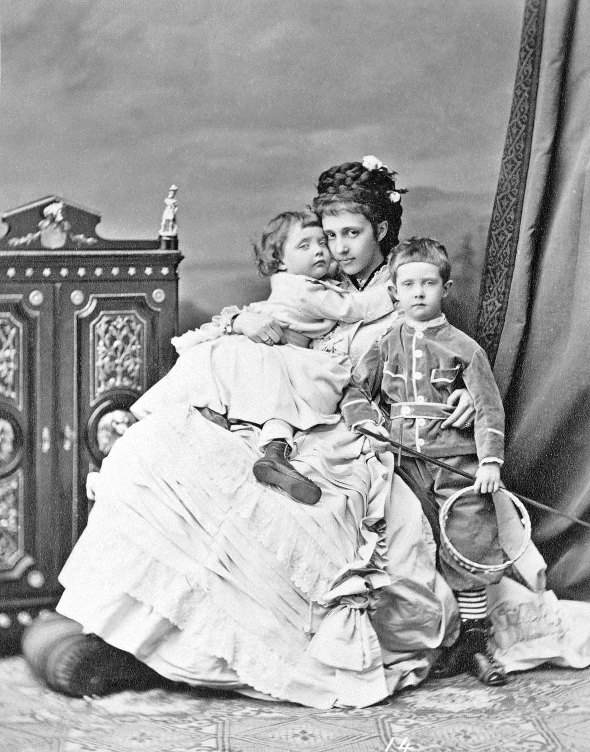 Infanta Maria Theresa of Portugal, archduchess of Austria, with her two stepchildren Ferdinand Karl and Margareta Sophie